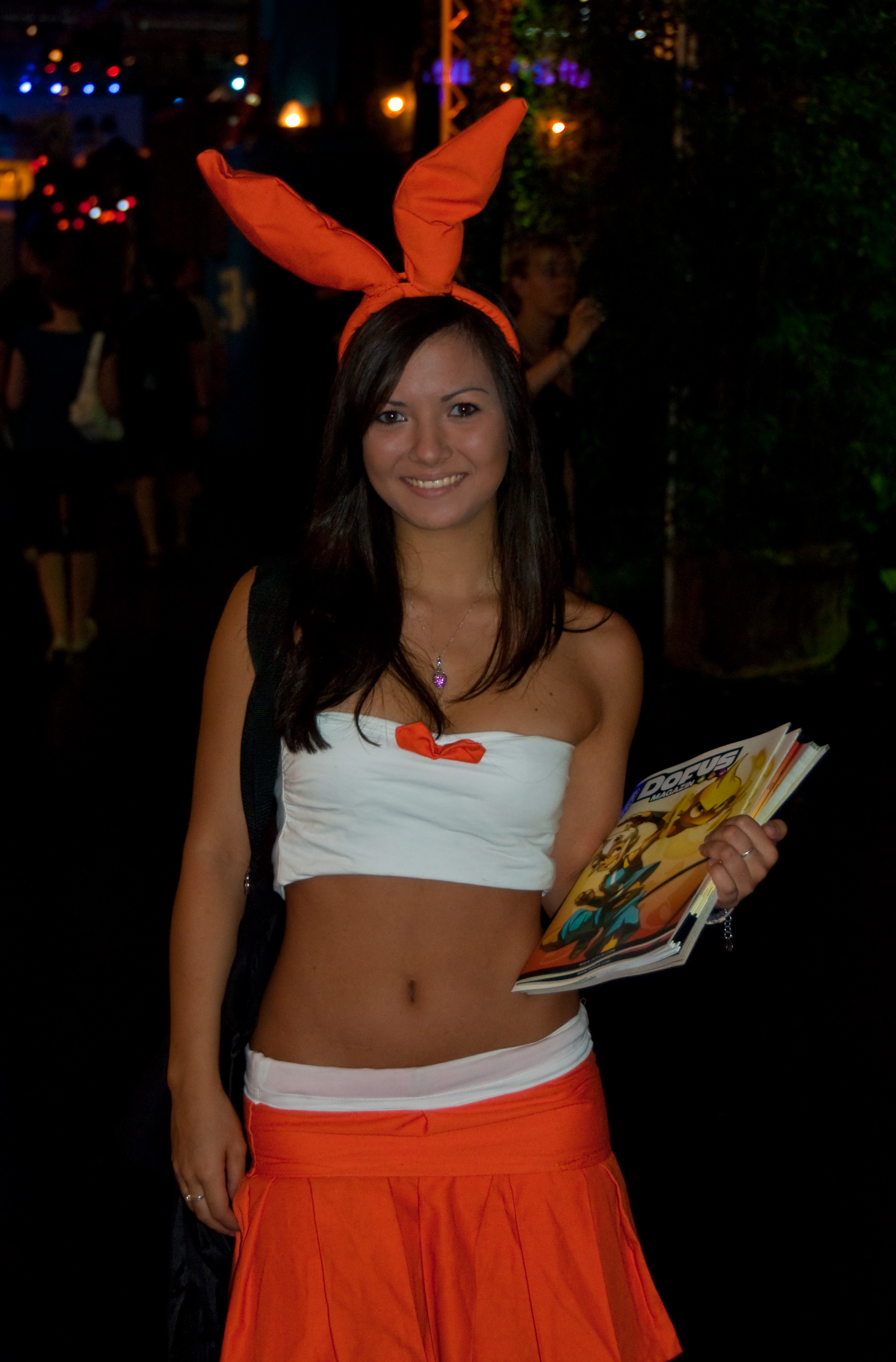 Dofus booth-babe at GamesCom